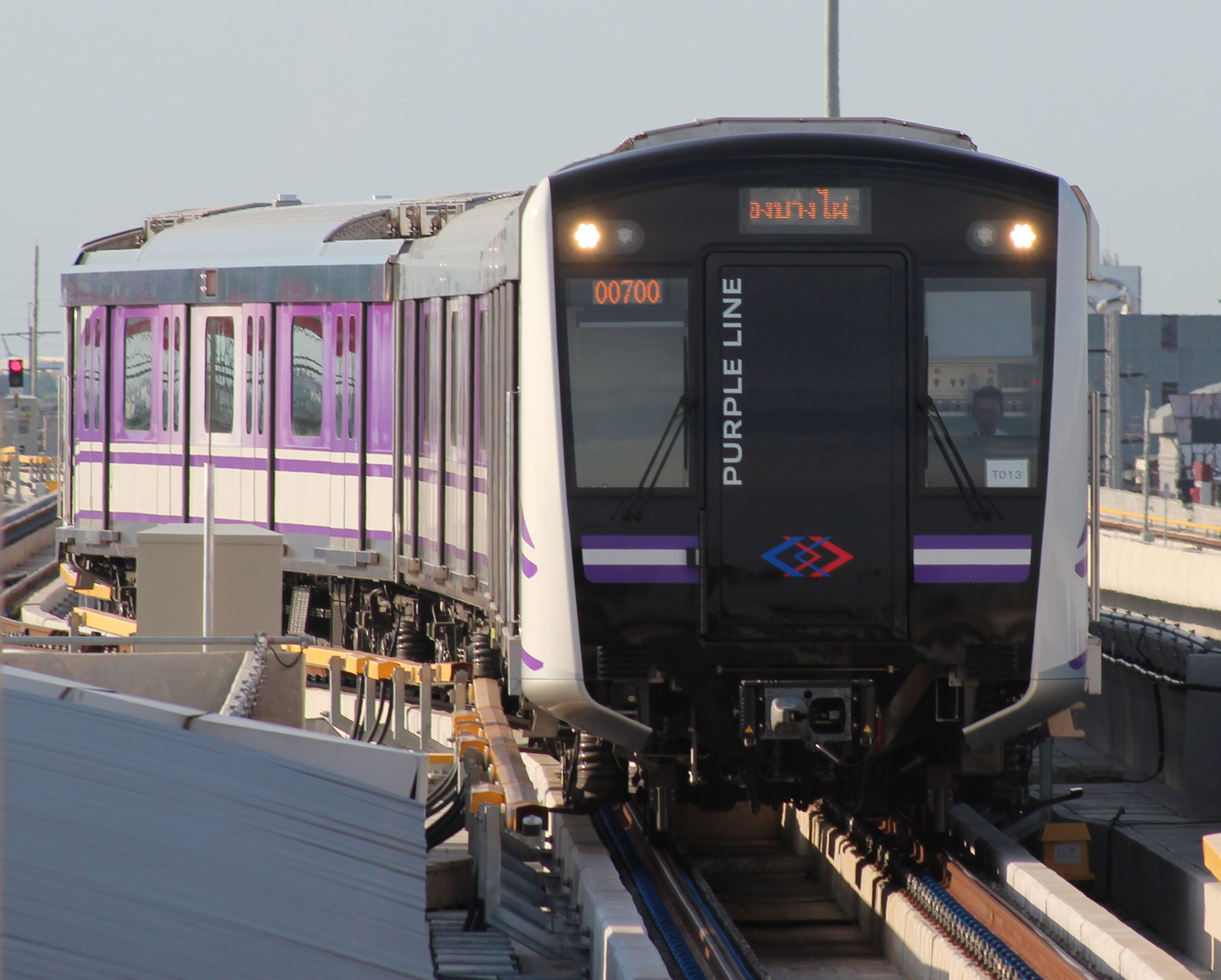 MRT Purple Line train T013